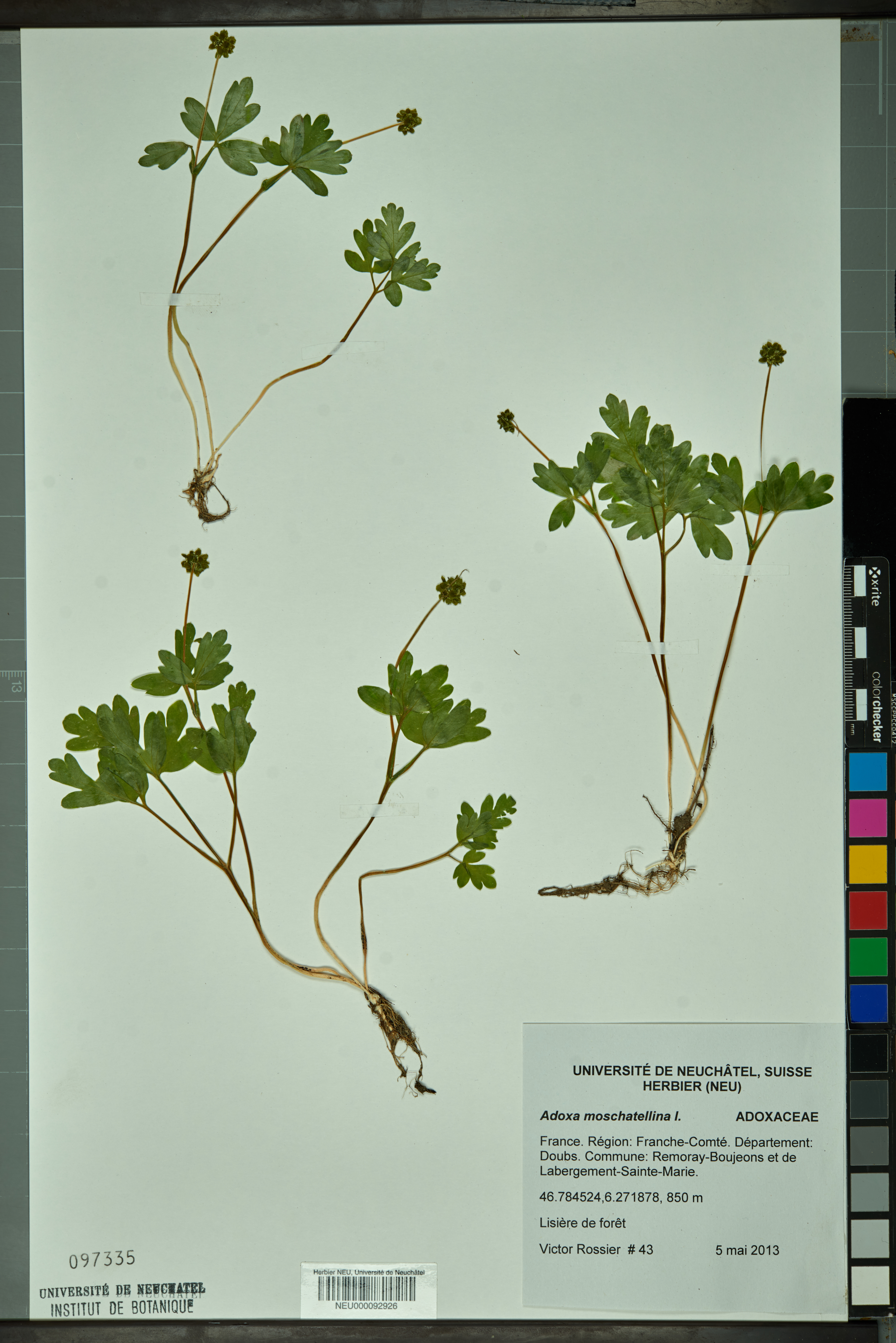 Dried pressed specimen of Adoxa moschatellina